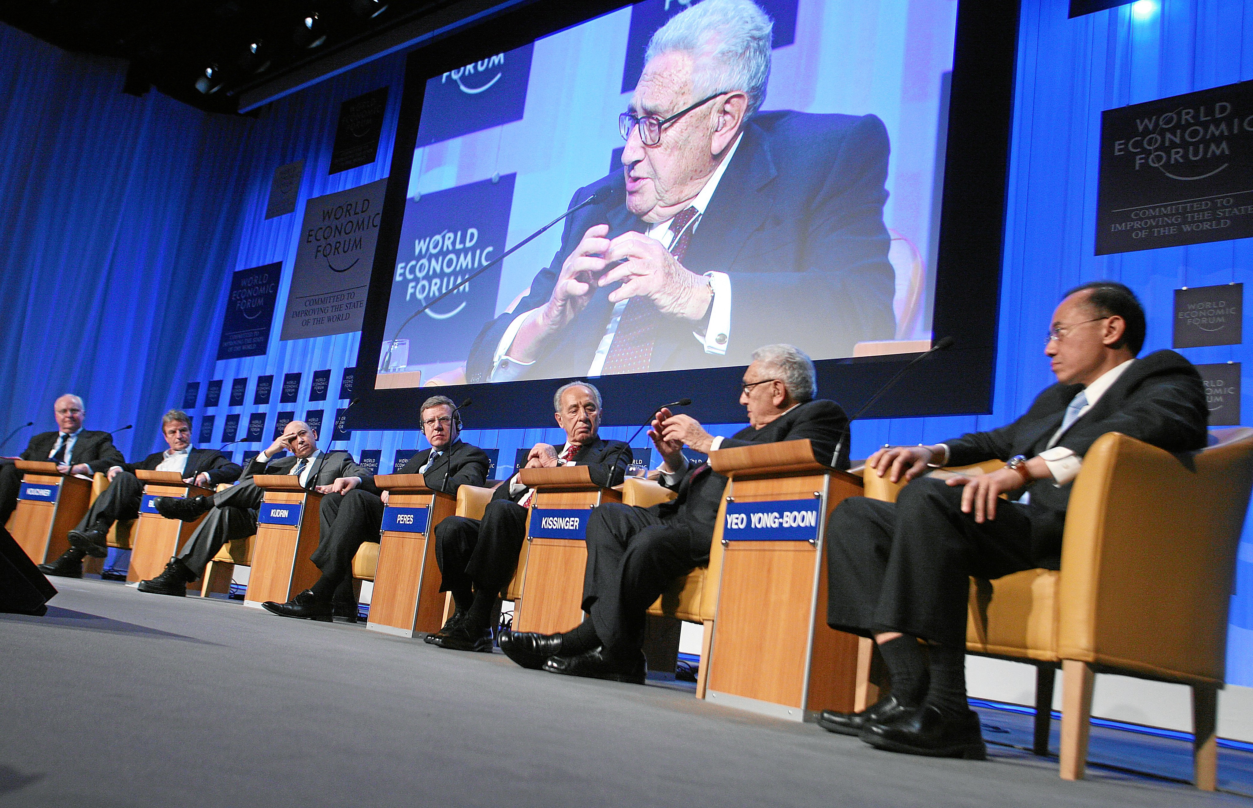 DAVOS/SWITZERLAND, 24 JAN 2008 - from left to right: Richard M. Smith, Chairman and Editor-in-Chief, Newsweek, USA; Bernard Kouchner, Minister of Foreign and European Affairs of France; Lloyd C. Blankfein, Chairman and Chief Executive Officer, Goldman Sachs Group, USA; Aleksey Kudrin, Deputy Prime Minister and Minister of Finance of the Russian Federation; Shimon Peres, President of Israel; Henry A. Kissinger, Chairman, Kissinger Associates, USA, and Co-Chair of the World Economic Forum Annual Meeting 2008; George Yeo Yong-Boon, Minister of Foreign Affairs of Singapore, captured during the session "Orchestrating a New Concert of Powers" at the Annual Meeting 2008 of the World Economic Forum in Davos, Switzerland.